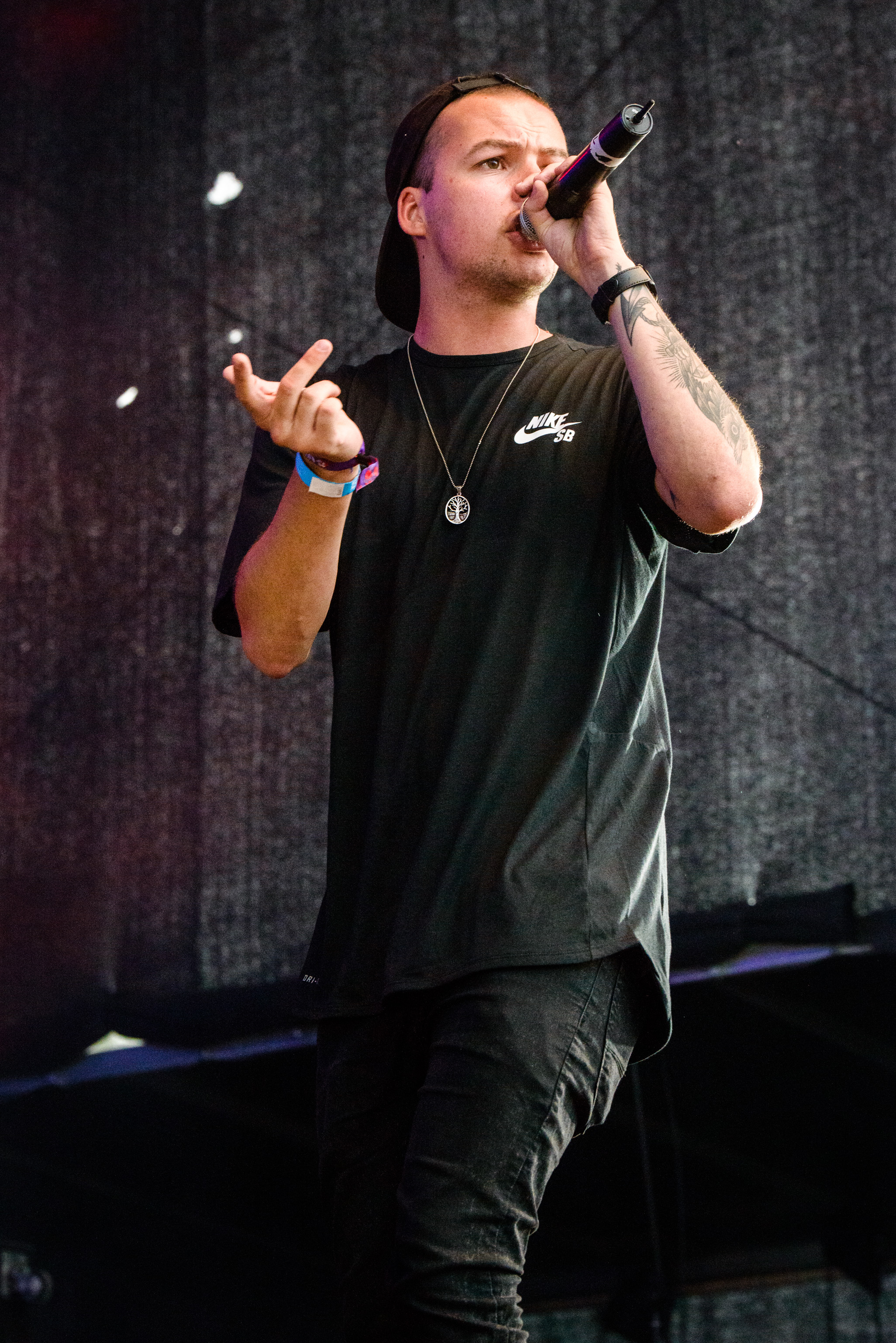 Errdeka Live @ Utopia Island 2015